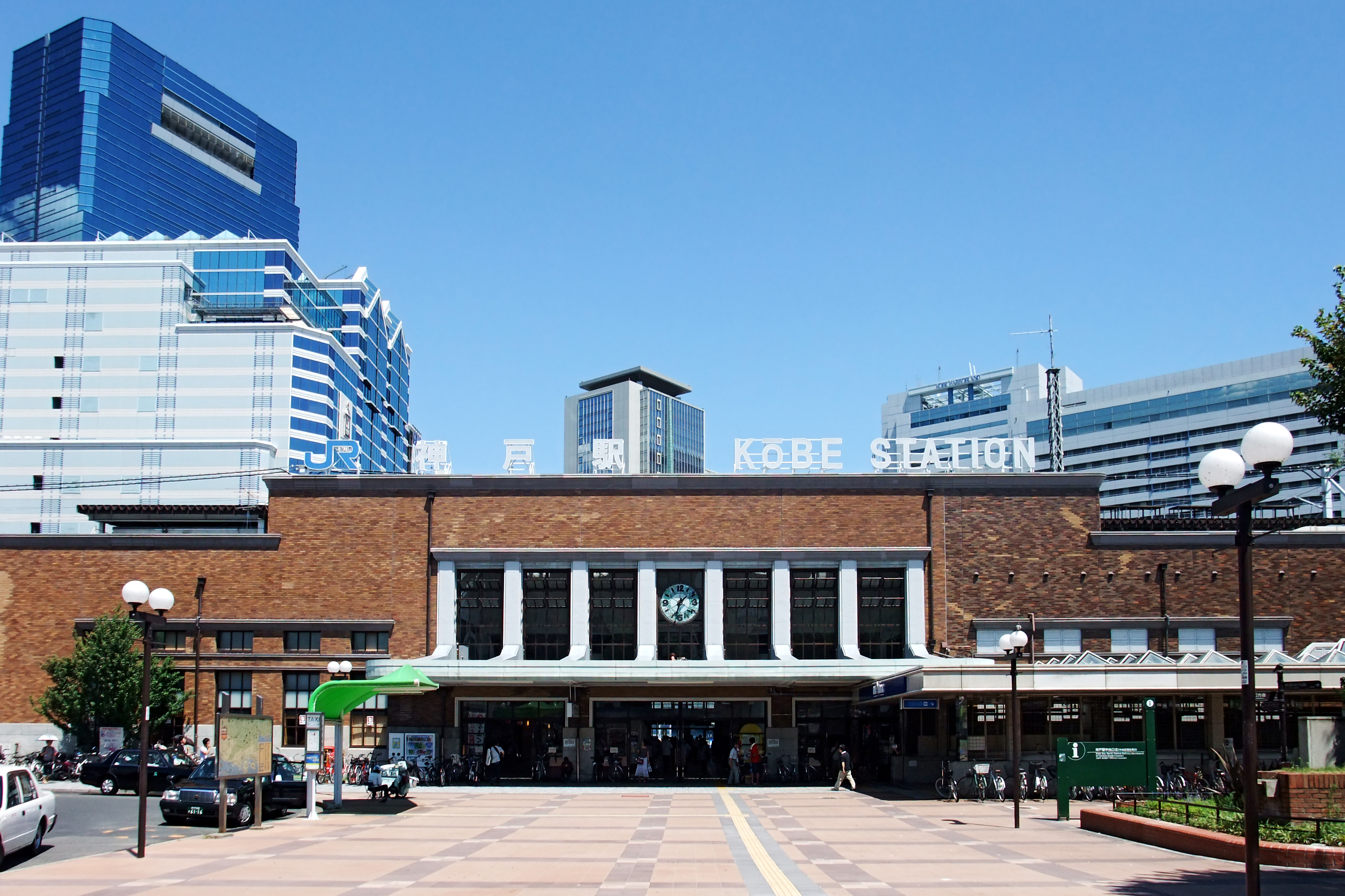 Kobe Station in Kobe, Hyogo prefecture, Japan